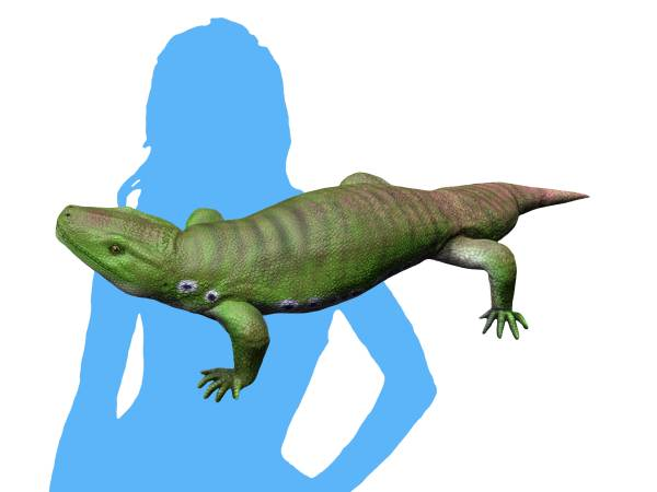 Life reconstruction of Seymouria baylorensis